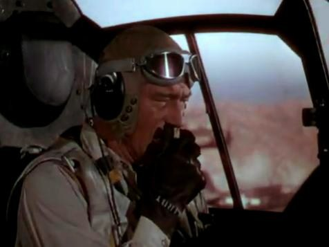 John Wayne in Flying Leathernecks (1951) - trailer (cropped screenshot)